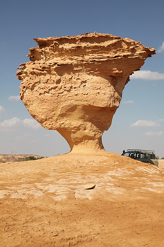 Sandstone rock west of Qarat Umm el-Sugheir, Siwa depression, Egypt